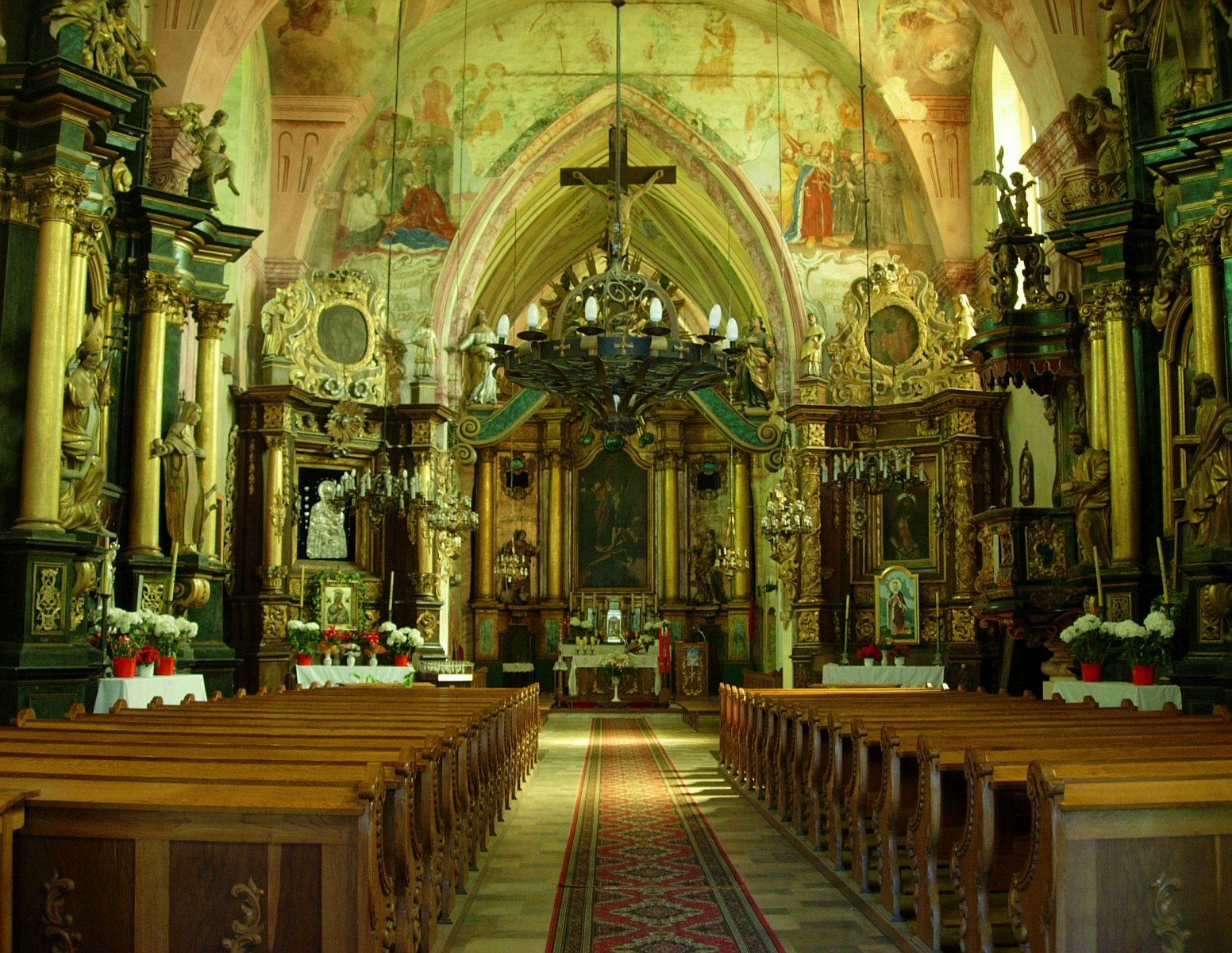 Saint Stanislaus Church in Nowy Korczyn, Poland